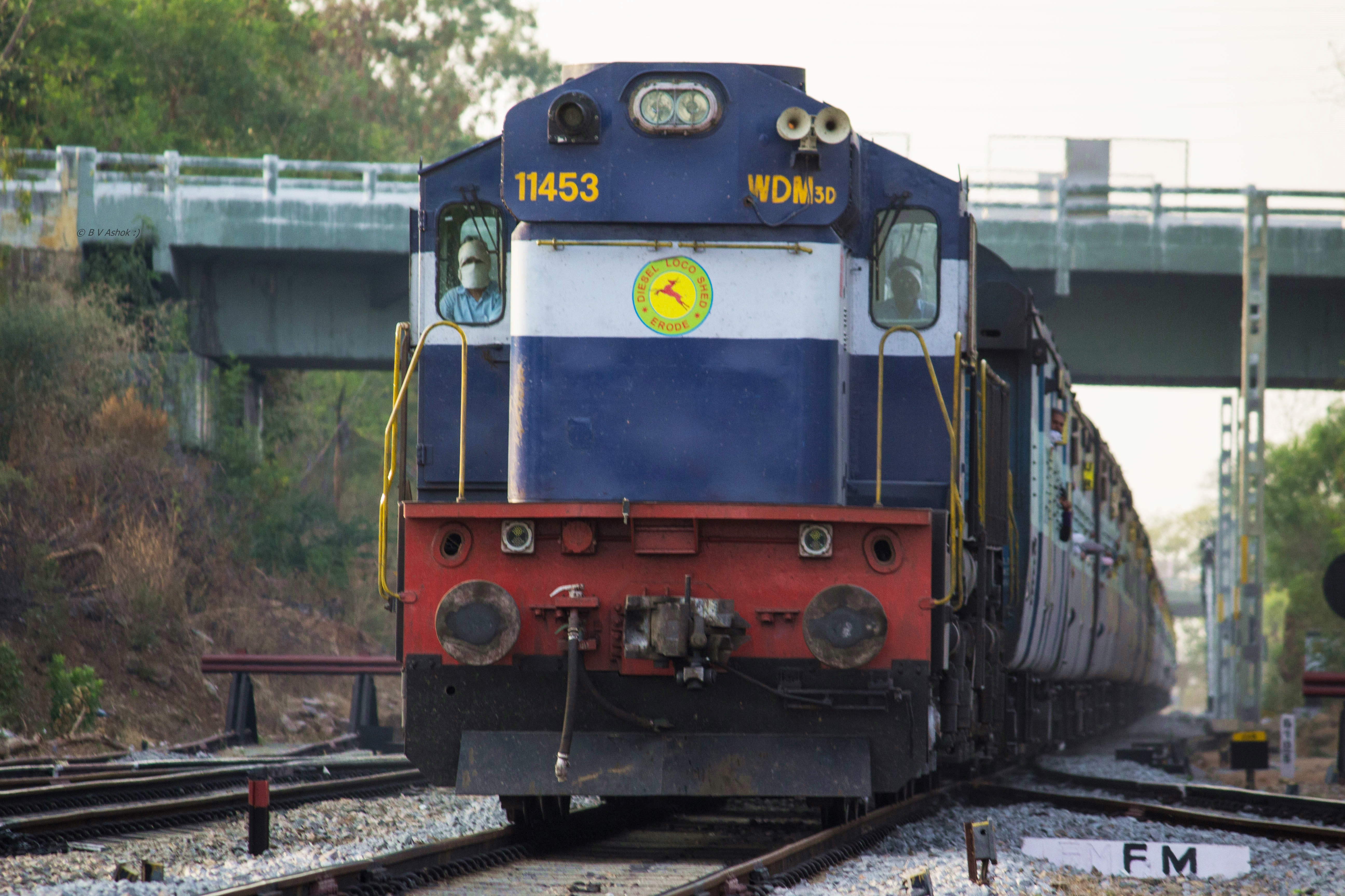 ED WDM-3D 11453 cruising through Cavalry Barracks with 16734 Okha - Rameshwaram Express...